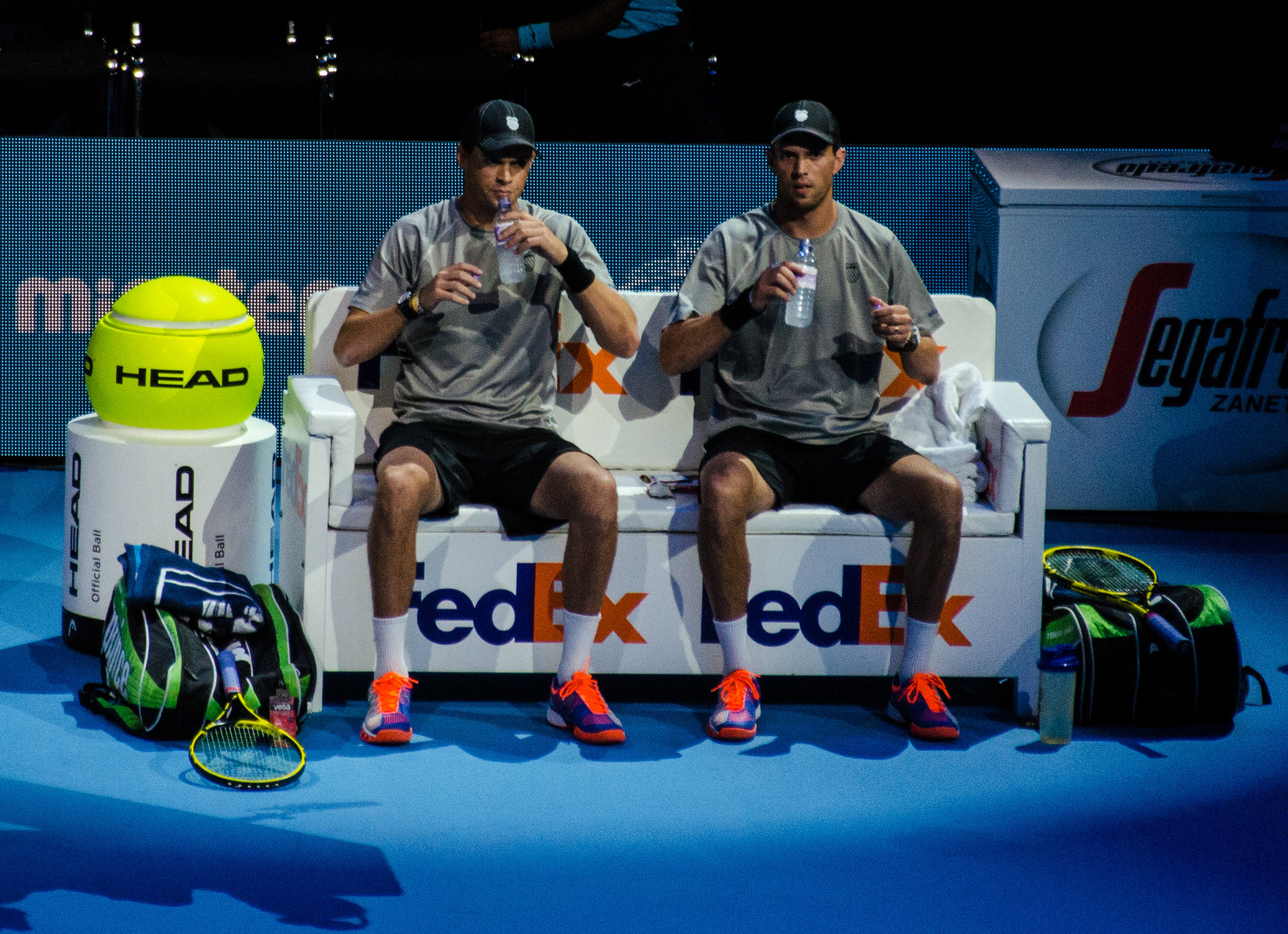 This is a photo of a tennis game at the ATP World Tour Finals.